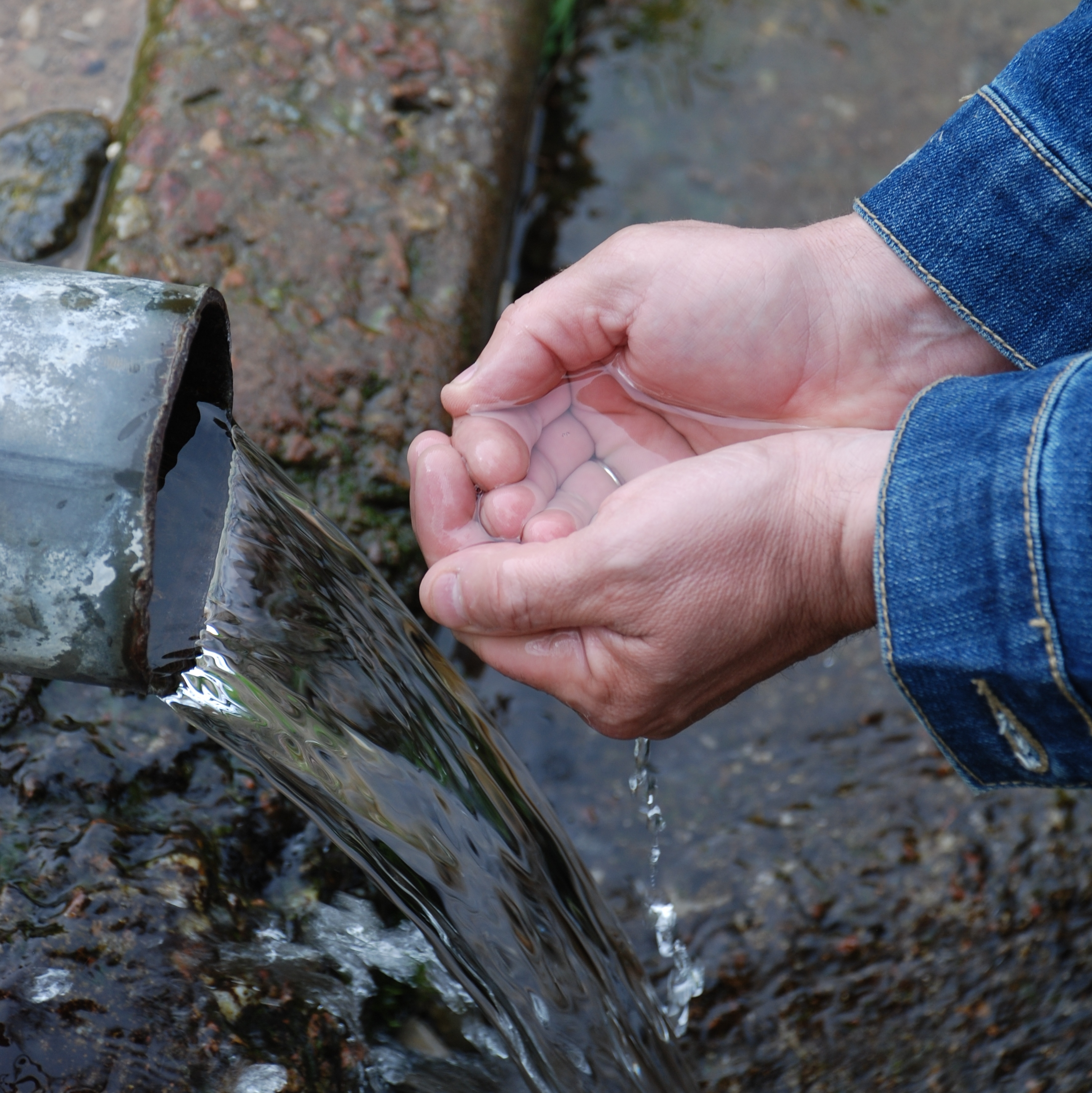 The cupped hands of a man forming a bowl of water.